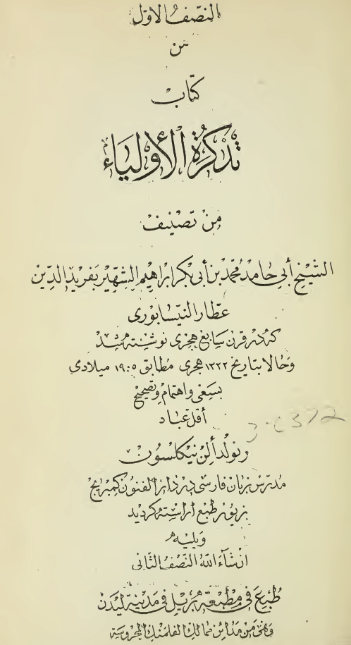 Farid-al-DinʿAṭṭār, Tadhkiratu’l-Awliya, ed. Reynold A. Nicholson, intr. by Moḥammad Qazwini, 2 vols., 1905-1907.